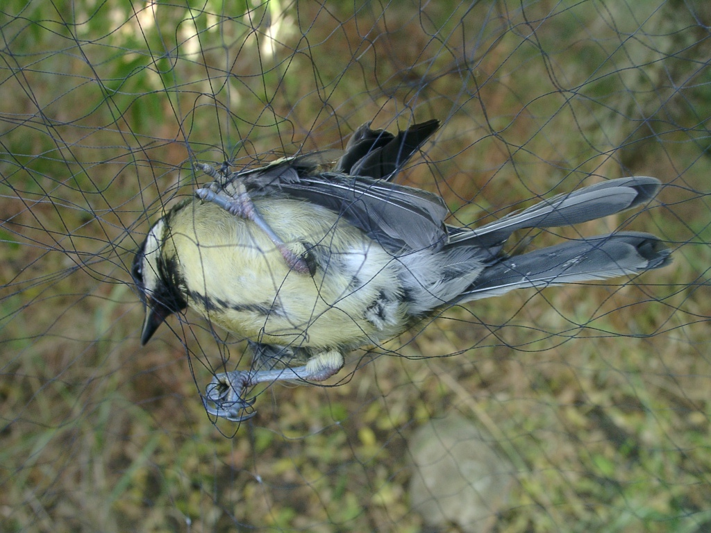 Bird ringing (bird banding) sequence, picture 2: A bird caught in a mist net (Great Tit, Parus major). Cruzinha, Portimão, Portugal.